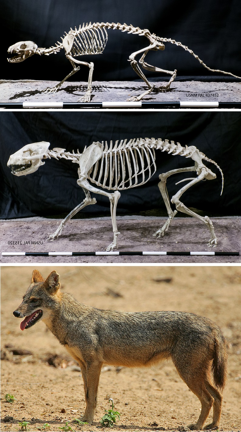 Representatives of three canid lineages